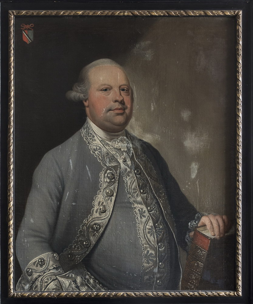 The person pictured in the painting is Jacob Willem van Panthaleon van Eck (1727-1789). He was ambtsjonker of Brummen, lord of Overbeek and Ontvanger-generaal of the Veluwe. He married Margaretha Vijgh, Lady of de Snor (“De Snor” used to be a castle in the municipality of Dodewaard).